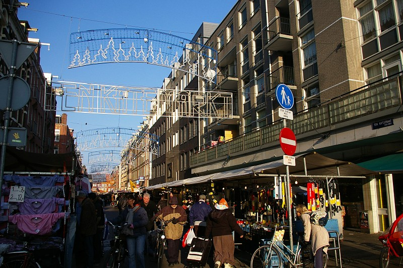 Ten Katestraat markt, Amsterdam